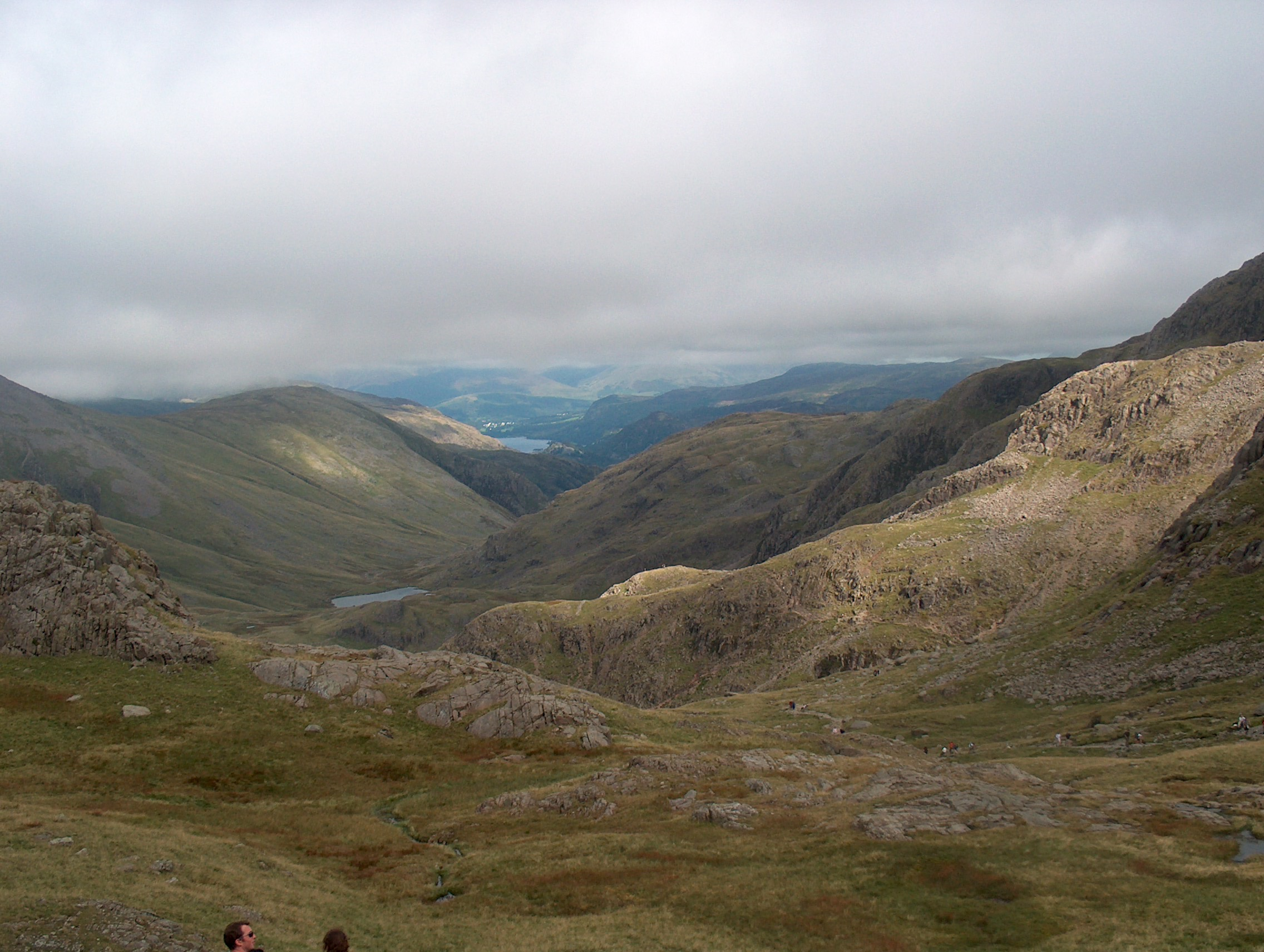 Looking down the Corridor Route You can see Styhead Tarn and as far as Derwentwater.